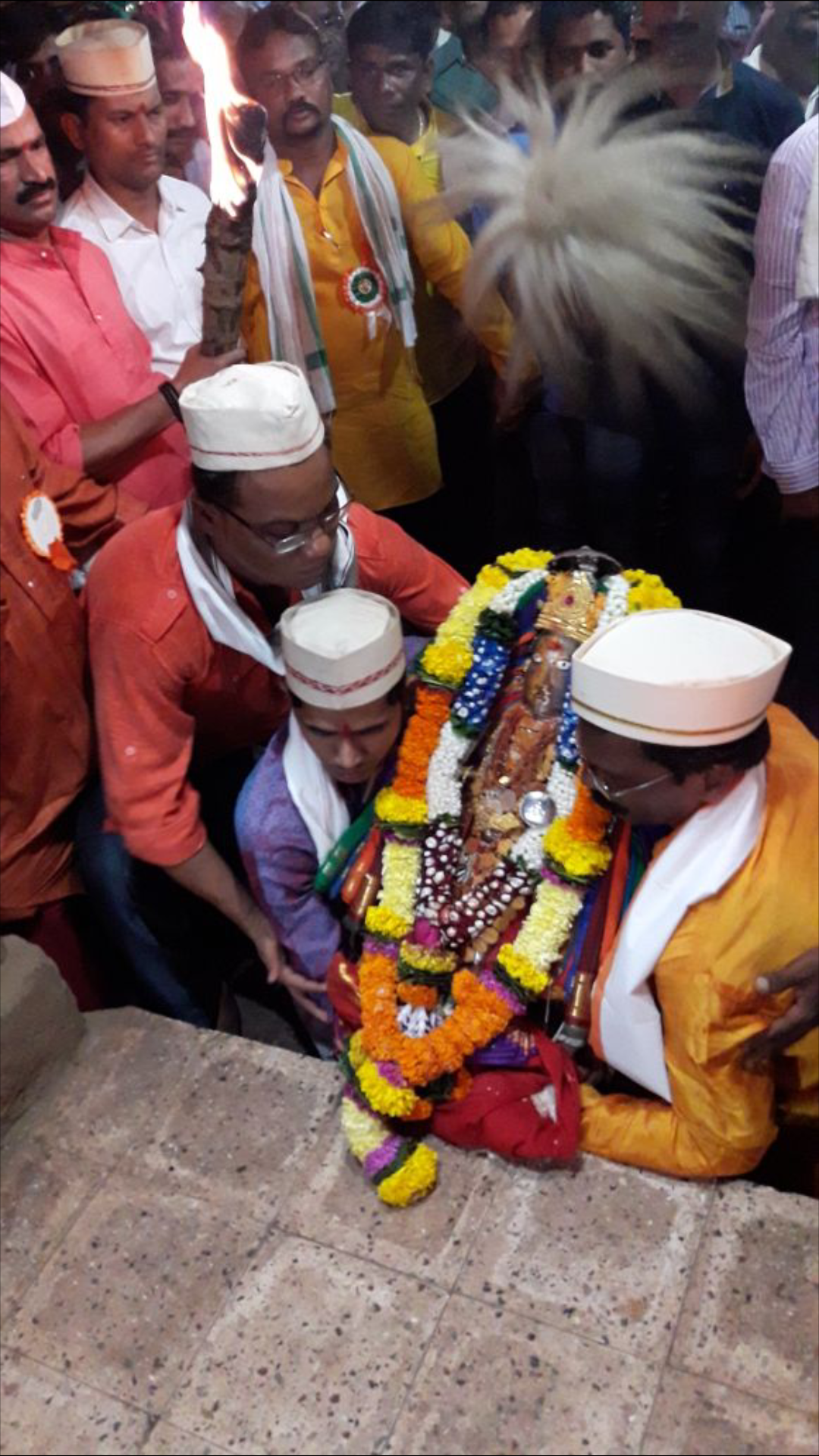 Aryadurga devi - Navadurga devi, devihasol